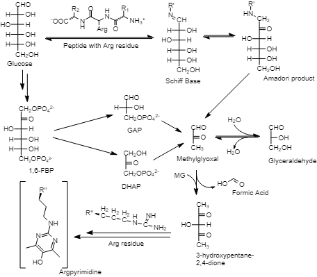 pathways to synthesize AGE argpyrimidine